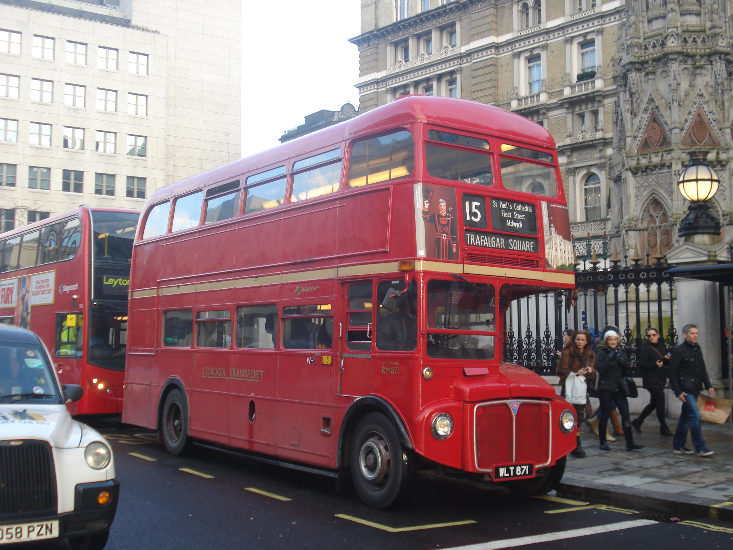 Routemaster RM871 (WLT 871) on route 15H